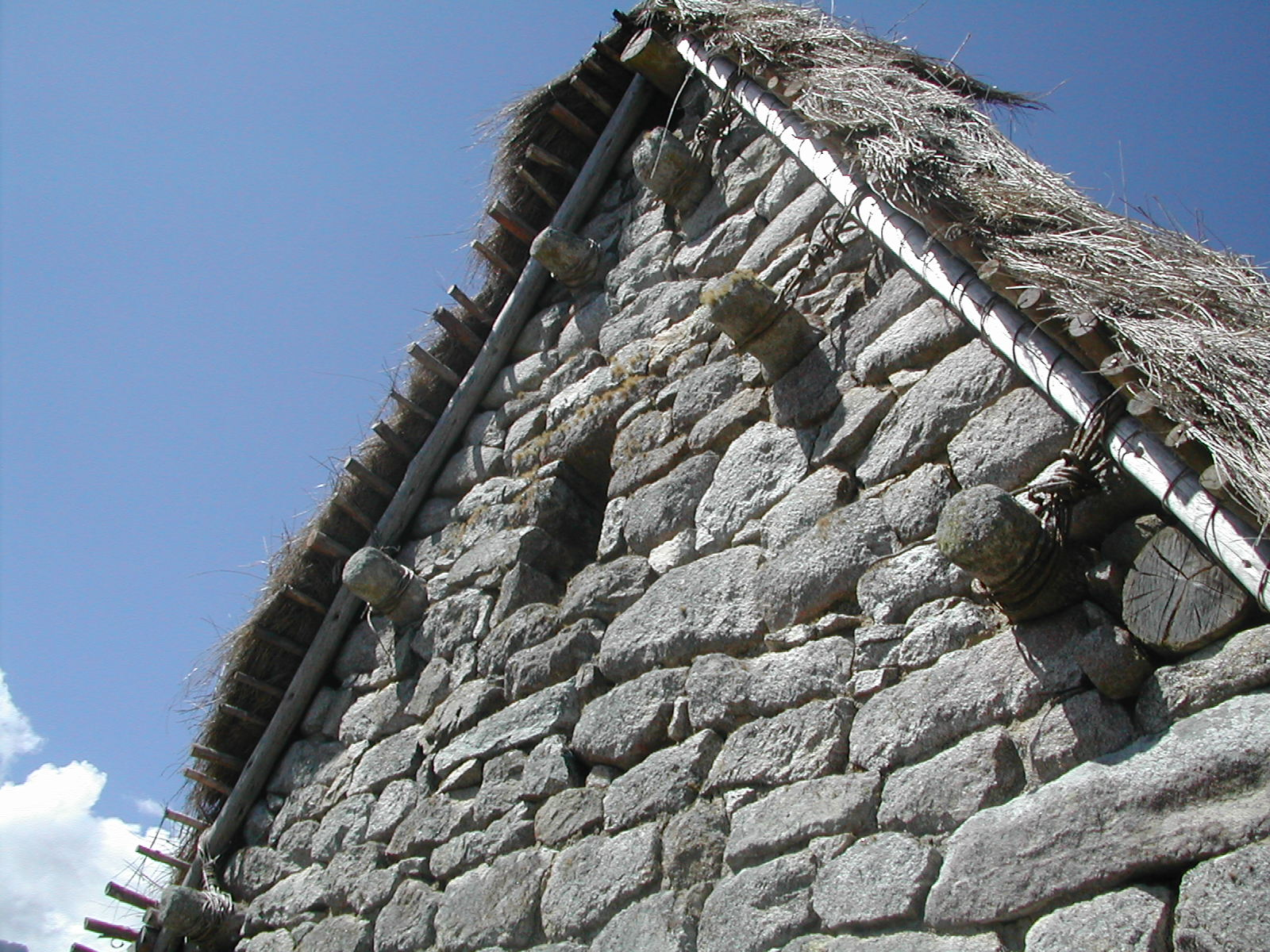 Machu Picchu, the lost city of the Incas. Rebuilt roof